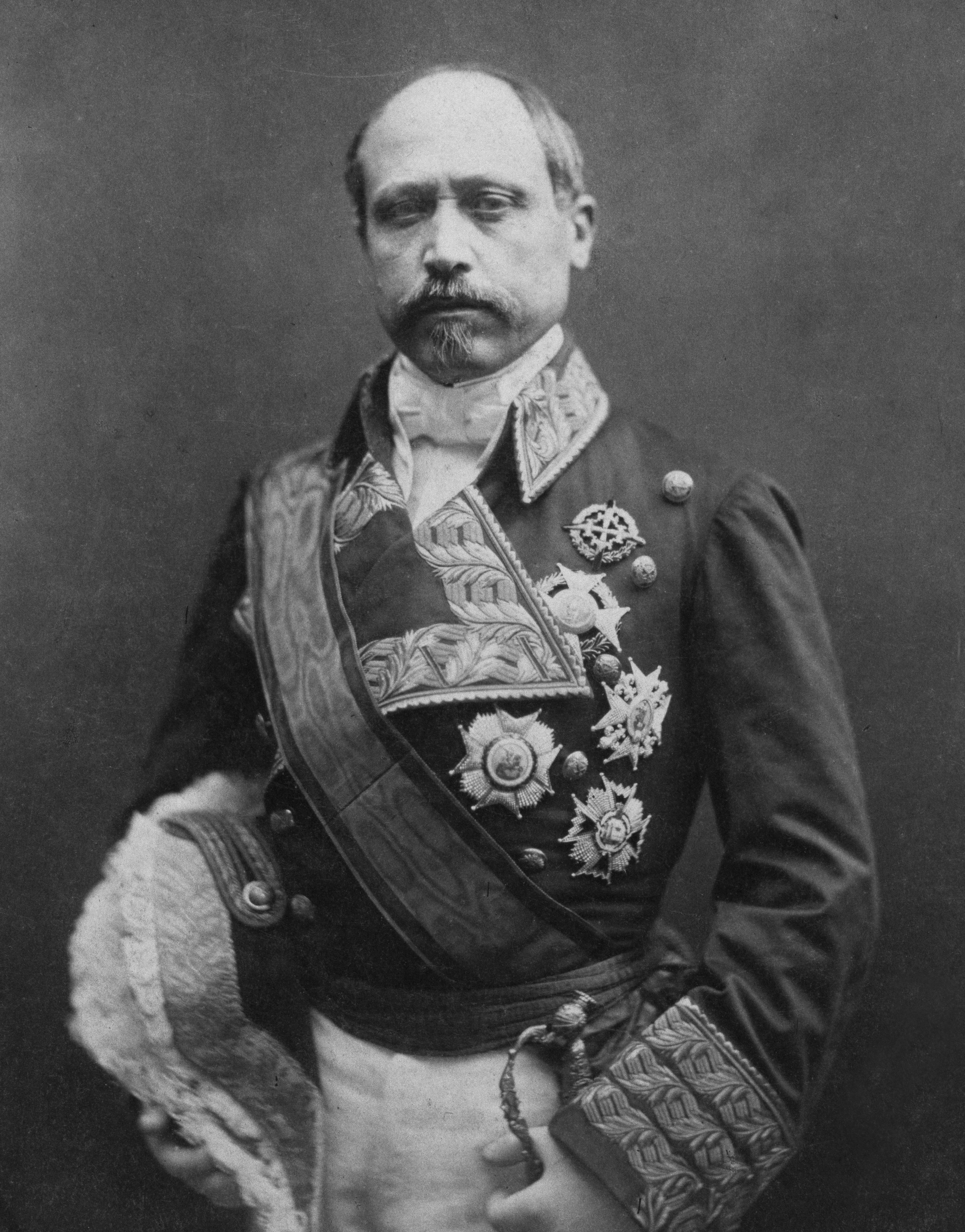 Francisco Serrano, Spanish general and politician. This is a retouched picture, which means that it has been digitally altered from its original version. Modifications: Minor background imperfection fixes + colour using Photoshop CS6..